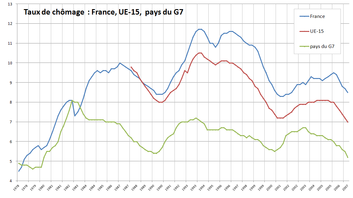 Standardised unemployment rate in France, in European Union of 15, and in the G7, quarterly data, seasonally adjusted.